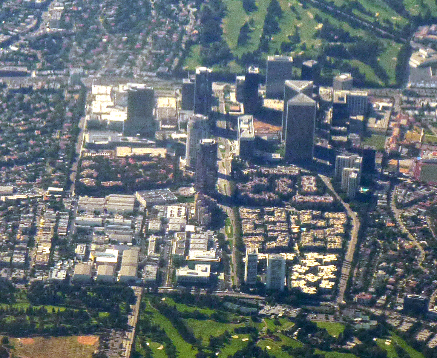 Aerial view of Century City — in western Los Angeles, California, USA.